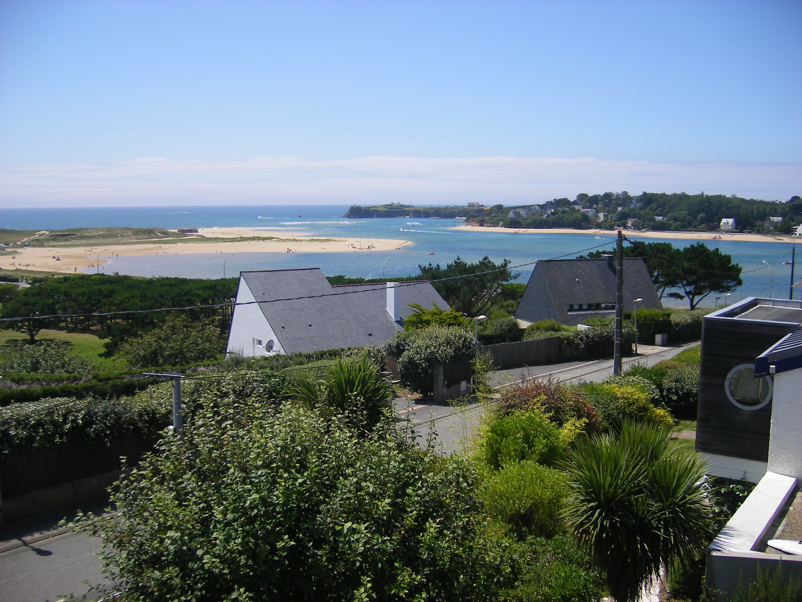 Laïta River estuary at Guidel, France